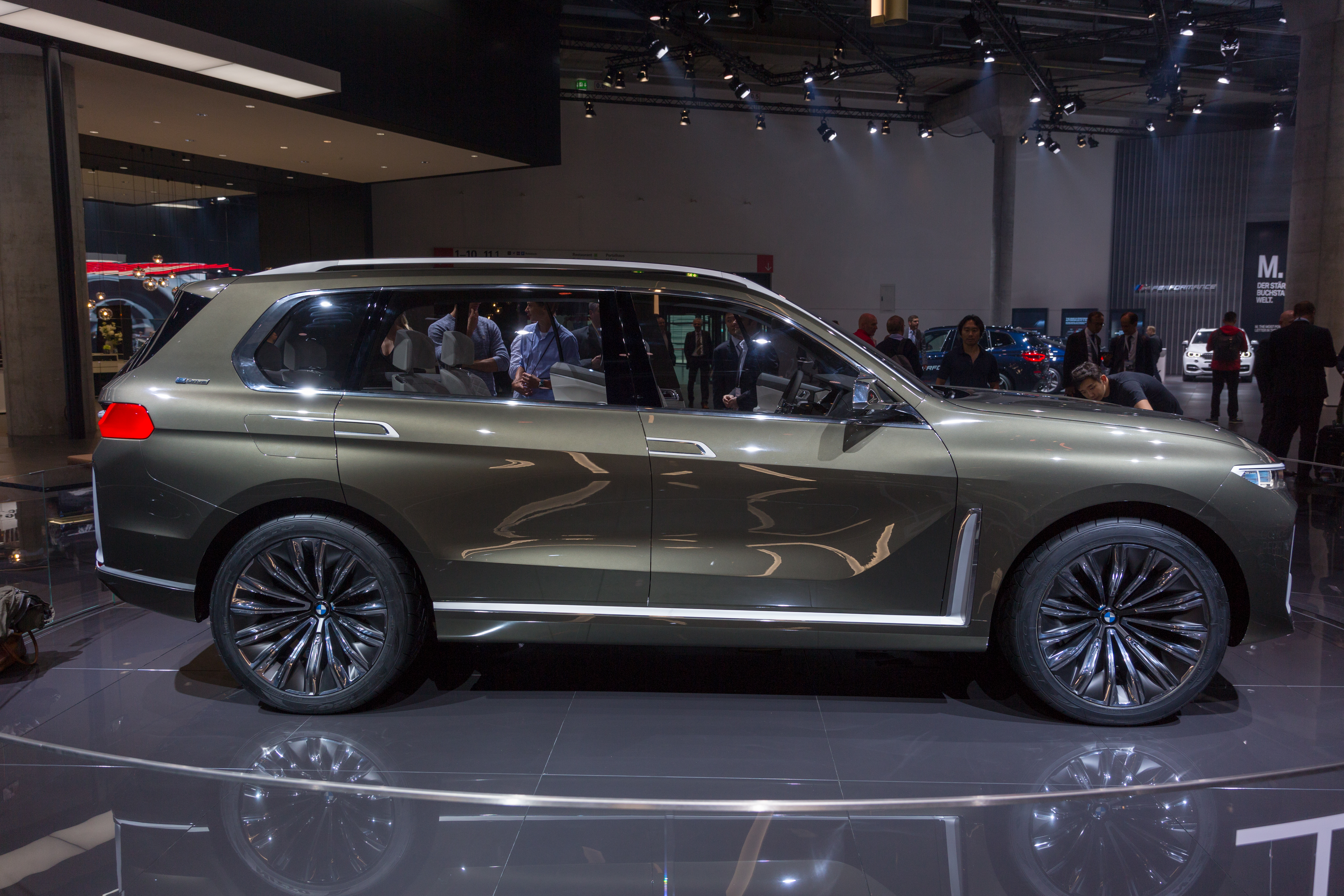 BMW Concept X7 iPerformance at Frankfurt Auto Show IAA 2017